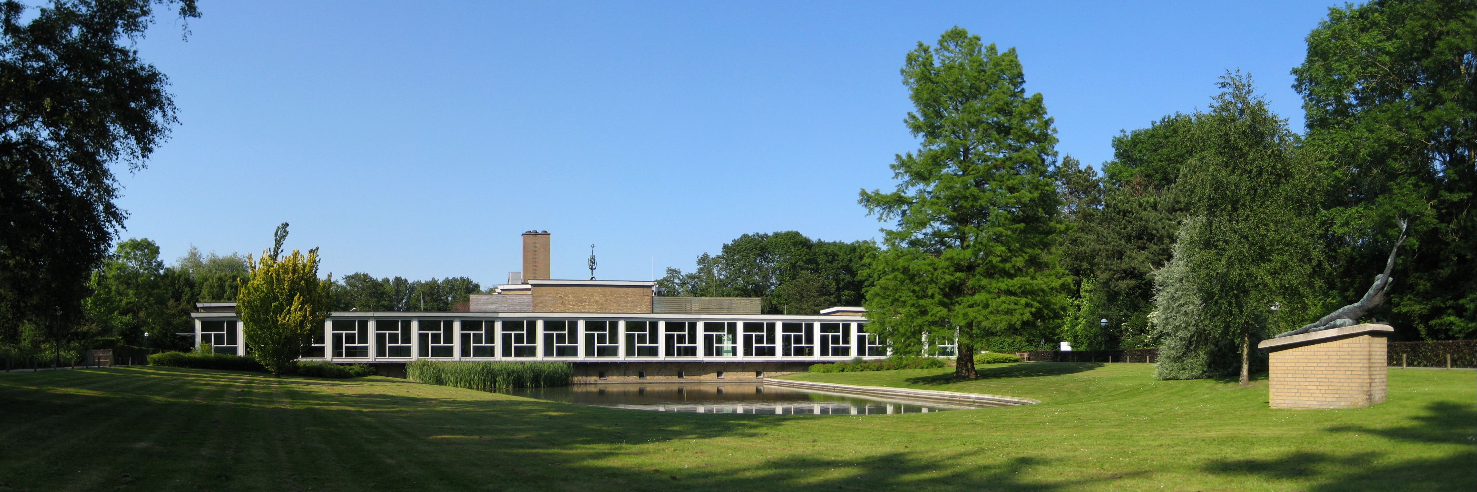 The crematorium (1960) of the Dutch city of Groningen.